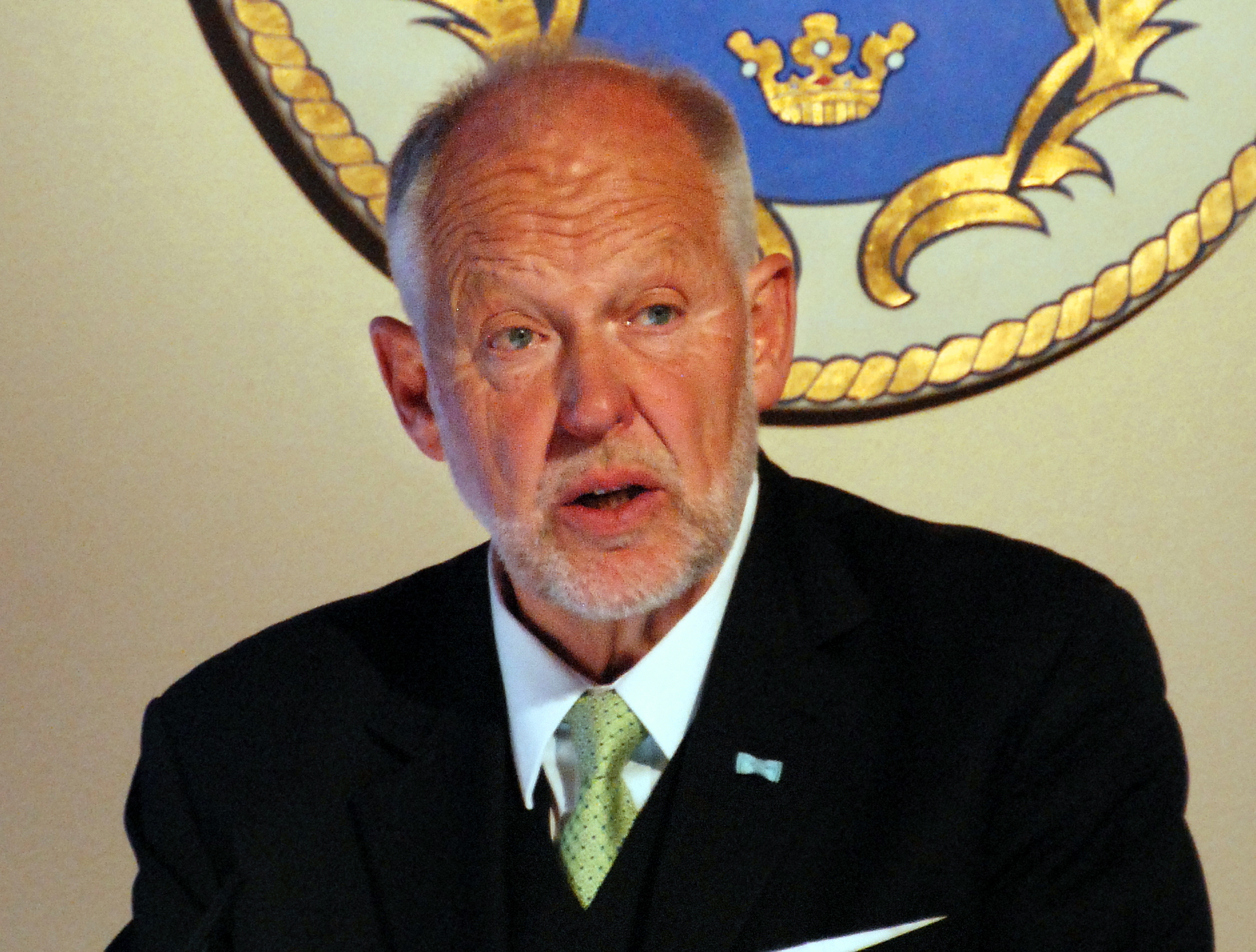 Crafoord Prize 2009, prize-awarding ceremony: Opening remarks by Bo Sundqvist, president of the Royal Swedish Academy of Sciences